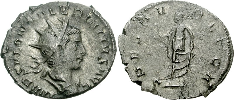 Saloninus. AD 260. AR Antoninianus (3.01 g, 6h). Colonia Agrippinensis (Cologne) mint. 2nd emission. IMP SALON VALERIANVS AVG, radiate and draped bust right / SPES PVBLICA, Spes advancing left, lifting dress with left hand and holding flower in right. RIC V 14; MIR 36, 917f; RSC 94.